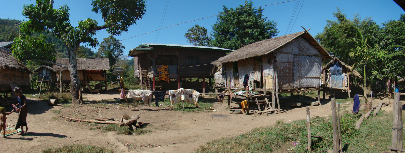 Ban Huay Lanong, a Tahoy village, Salavan Province, Laos.